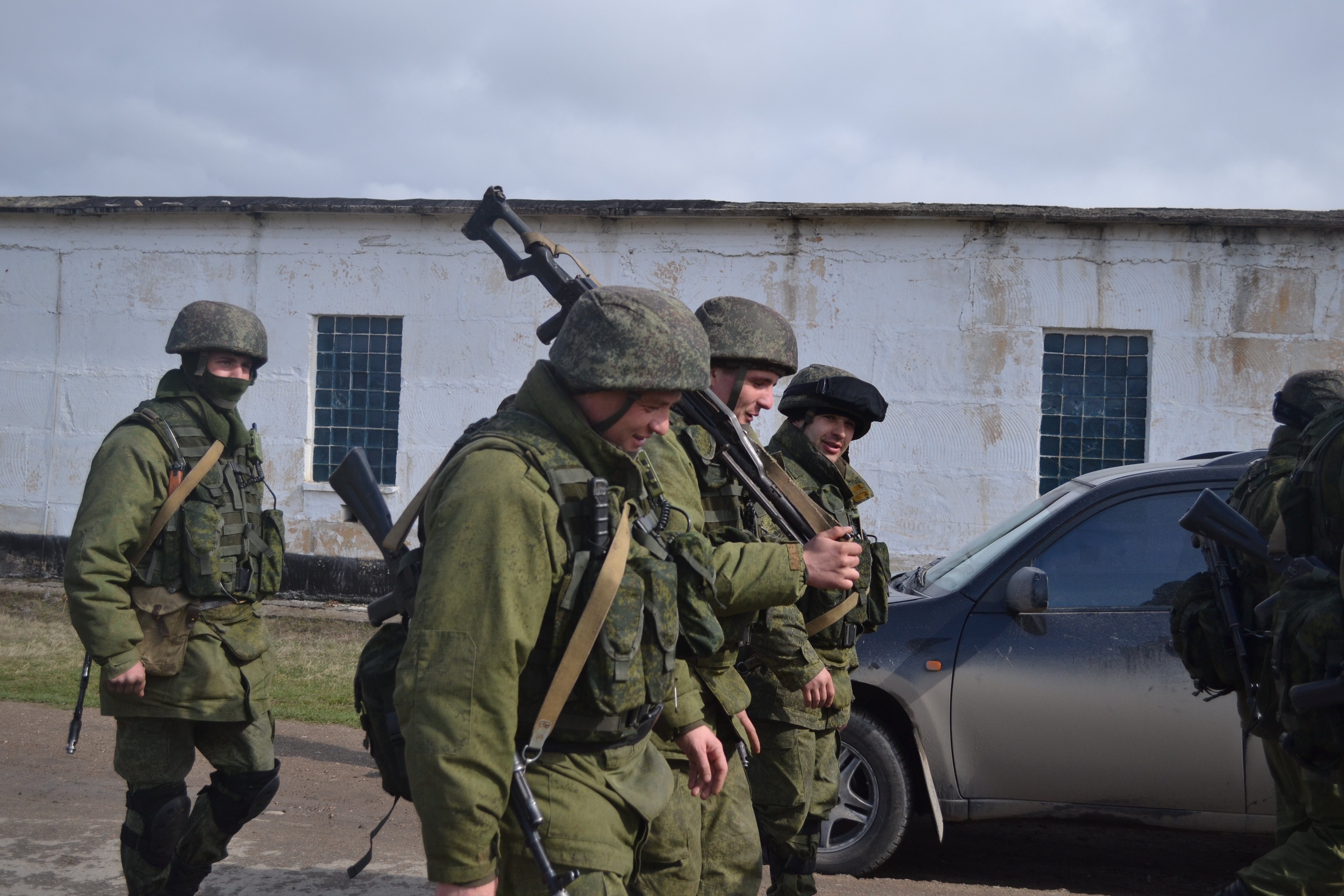 Military base at Perevalne during the 2014 Crimean crisis.